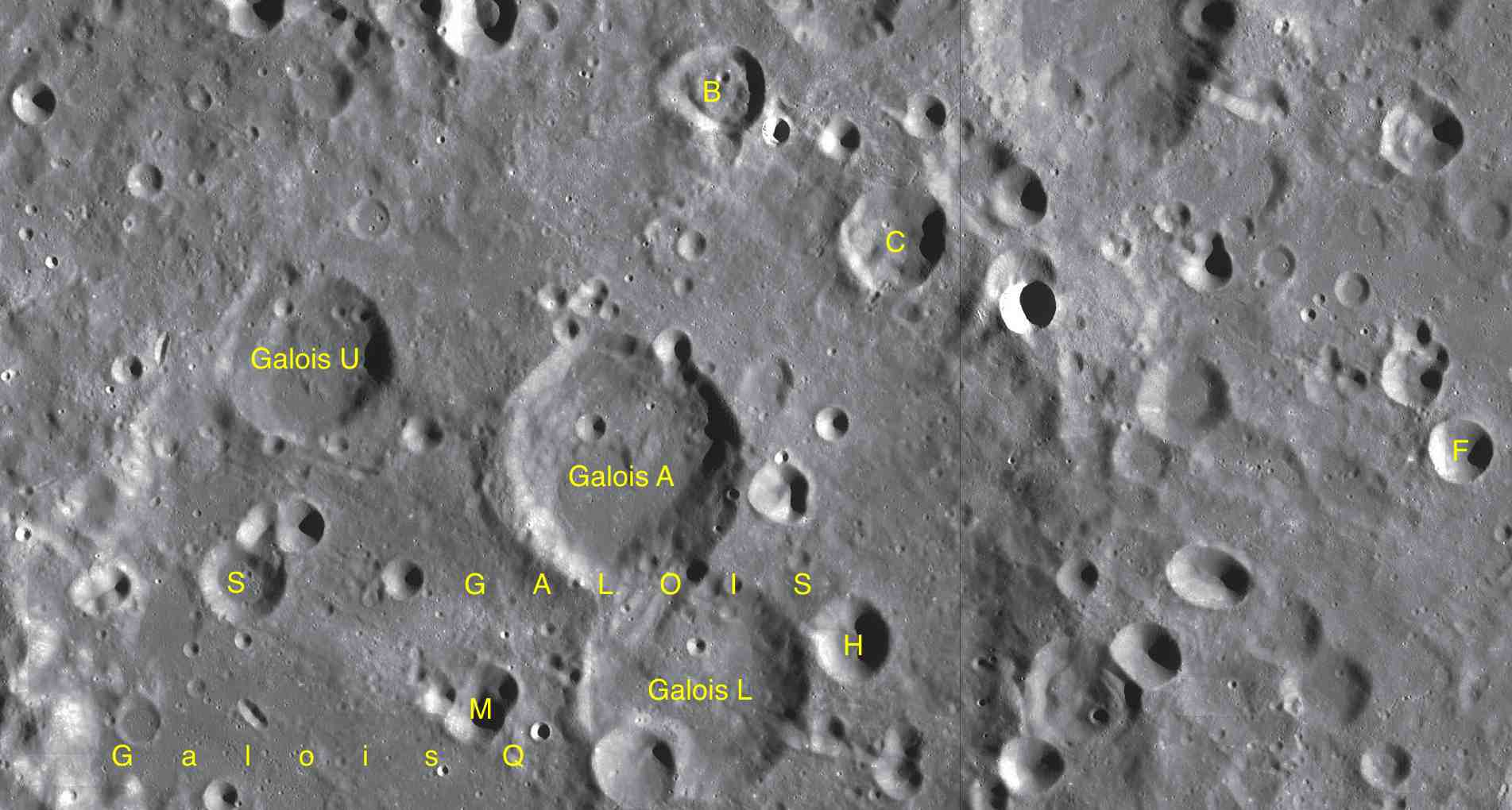 Parts of the charts LAC-87, LAC-88 used for the presentation